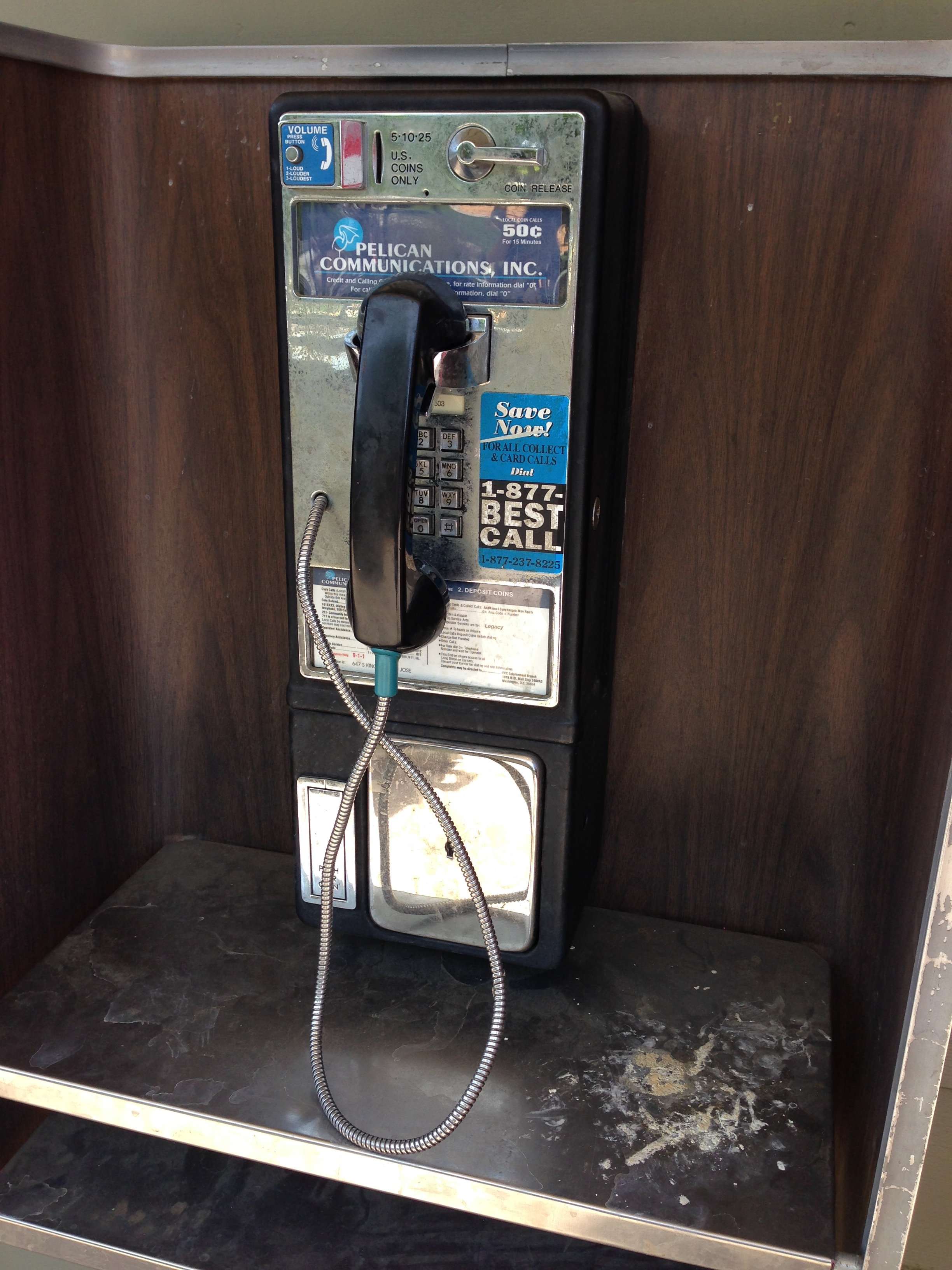 At Emma Prusch Farm Park, San Jose, California, outside the Meeting House building. Pelican Communications, Inc., signed on front. But a Pacific Bell sign is on the wall above (not in this photo).